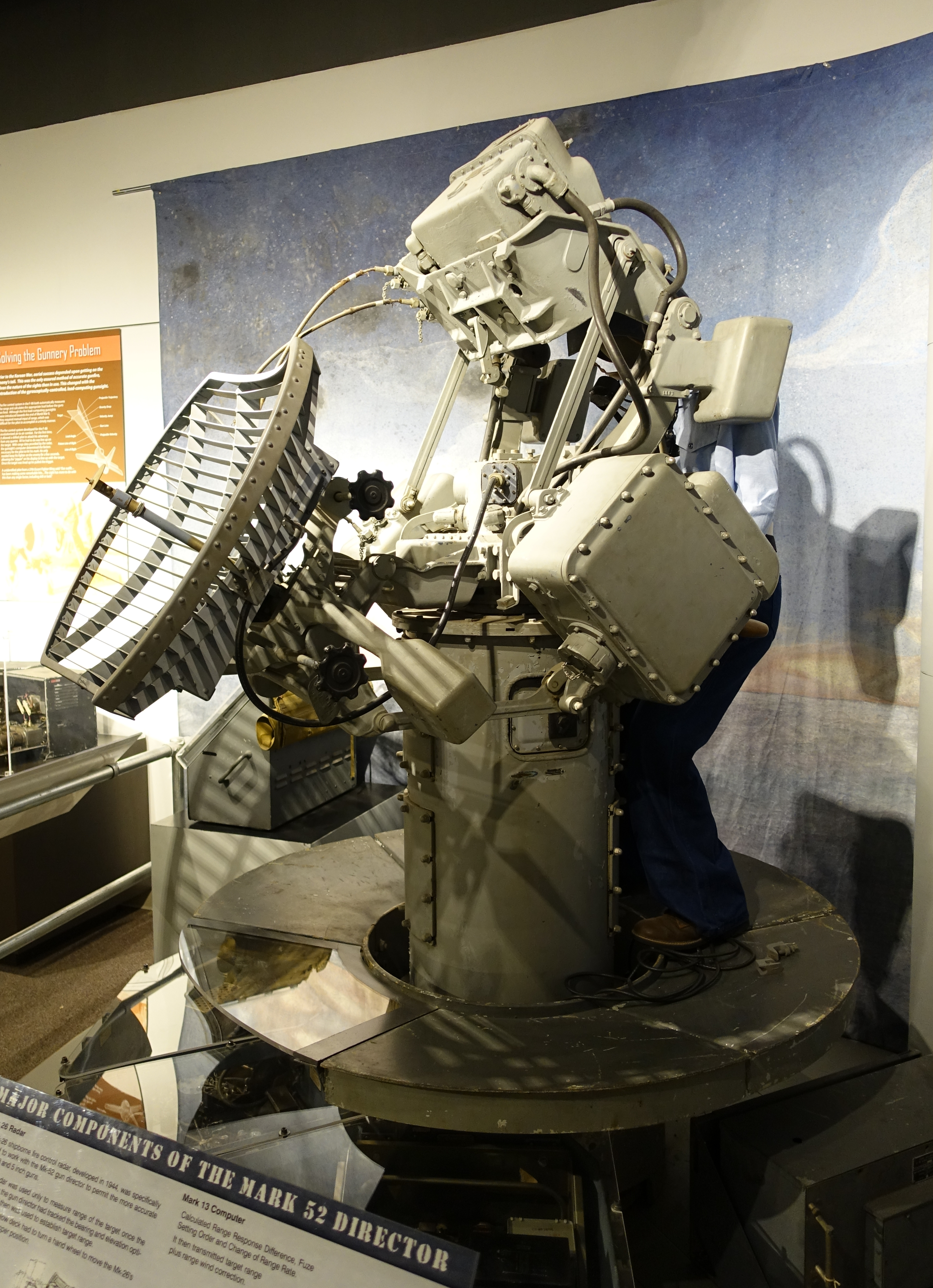 Exhibit in the National Electronics Museum, 1745 West Nursery Road, Linthicum, Maryland, USA. All items in this museum are unclassified. The museum permitted photography without restriction.